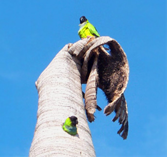 A pair of wild Nanday Conures in West Palm Beach, Florida. They are native to Brazil, and were first seen in Florida in the 1970s, where they nest in palm trees and feed on palm fruits and pine seeds. Photo by Carmen Cordelia.